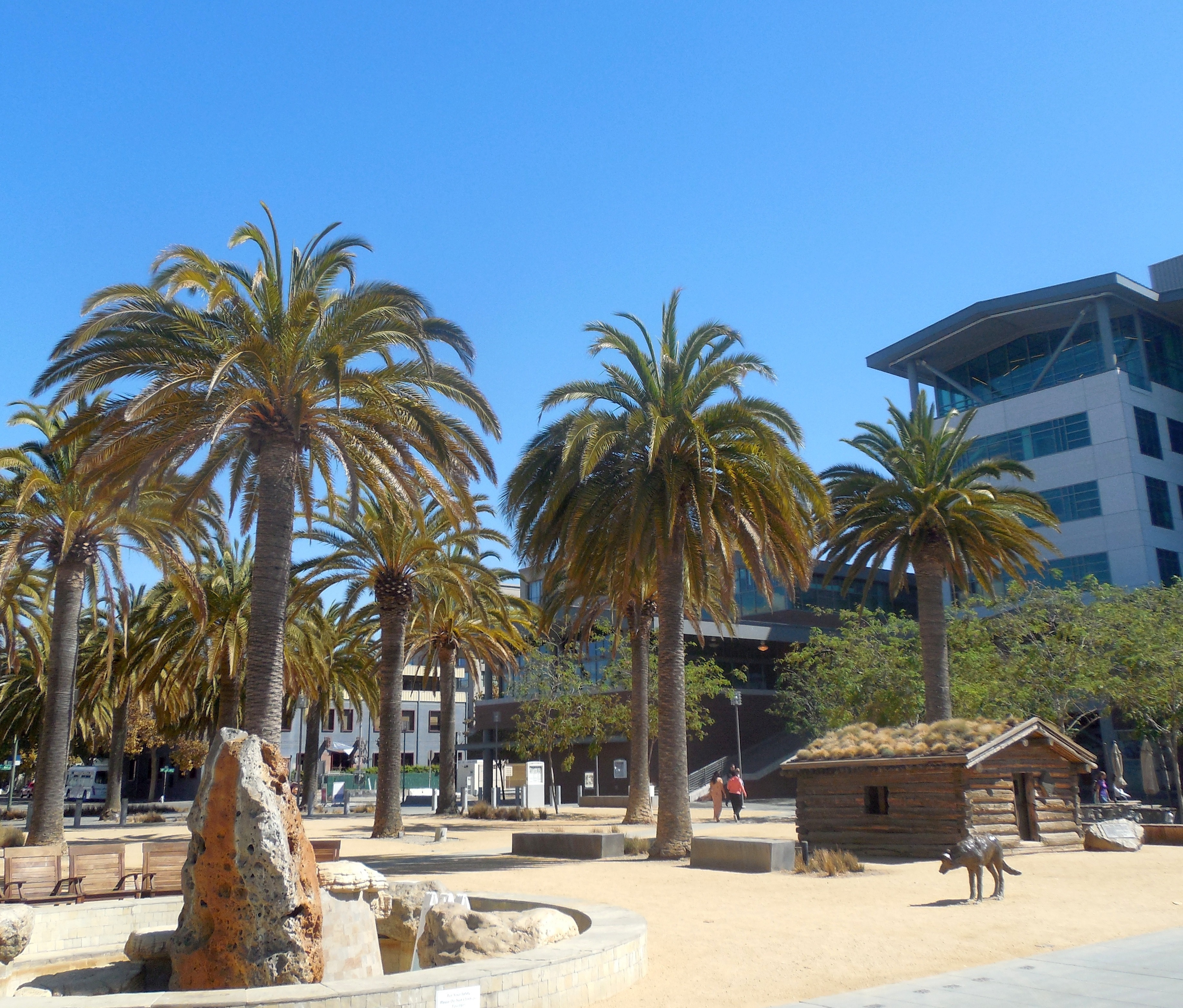 Jack London Square in Oakland, California. Jack London's replica 19th-century cabin was reconstructed in Jack London Square with some of the original logs from its former location in the Klondike. (Source: Spotswood, Ken (5 December 2016). "History of Jack London's Cabin" (pdf). Dawson City, Yukon: Jack London Museum, Klondike Visitors Association)